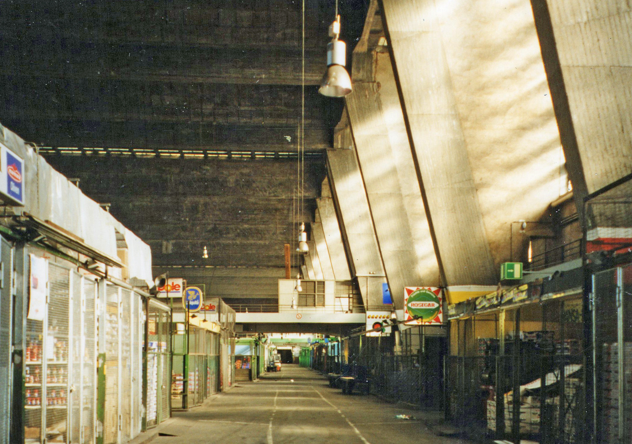 Wholesale market in Frankfurt, during operation 2002